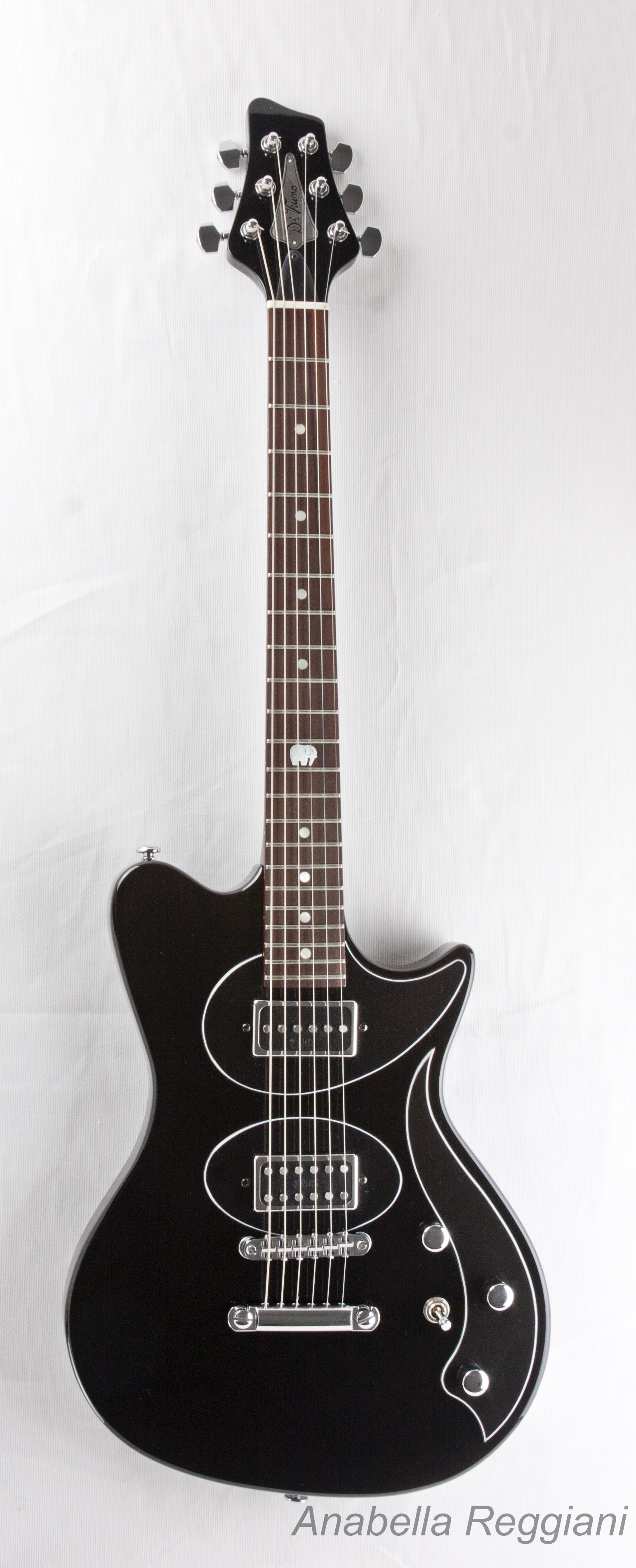 Vintage Guitars Hanmade ARG Made for order of Andres Galeotti (Cluster Effects) Serial Number: CL 250411 ARG BODY Body Style: Retrojet Body Wood: Cedar Selection HANDLE Wood Handle: 5 pieces of Cedar & Maple Wood fretboard: Jacaranda in Bolivia Radio: 12 inches. Number of Frets: 22 Scale: 24 ¨ 9/16 Nut: Bone Frets: Dunlop 6110 Turnbuckle: Double action HARDWARE Tuners: Gotoh Bridge and Tailpiece: Gotoh Tune-O-Matic Knobs: Chrome Microphones. Pickups Ds H & S Sonic Sonic Circuit: 2 Volume - 1 Tone - 3 position key Gotoh Strings: Ernie Ball 010 LOOK Finish: Lacquer black polyurethane Pickguard: Tri-Coat B-W-B Cover tensor: Ebony Inlays: pearl points and alpaca-elephant fret Cluster 12 - Di Vruno signature on headstock